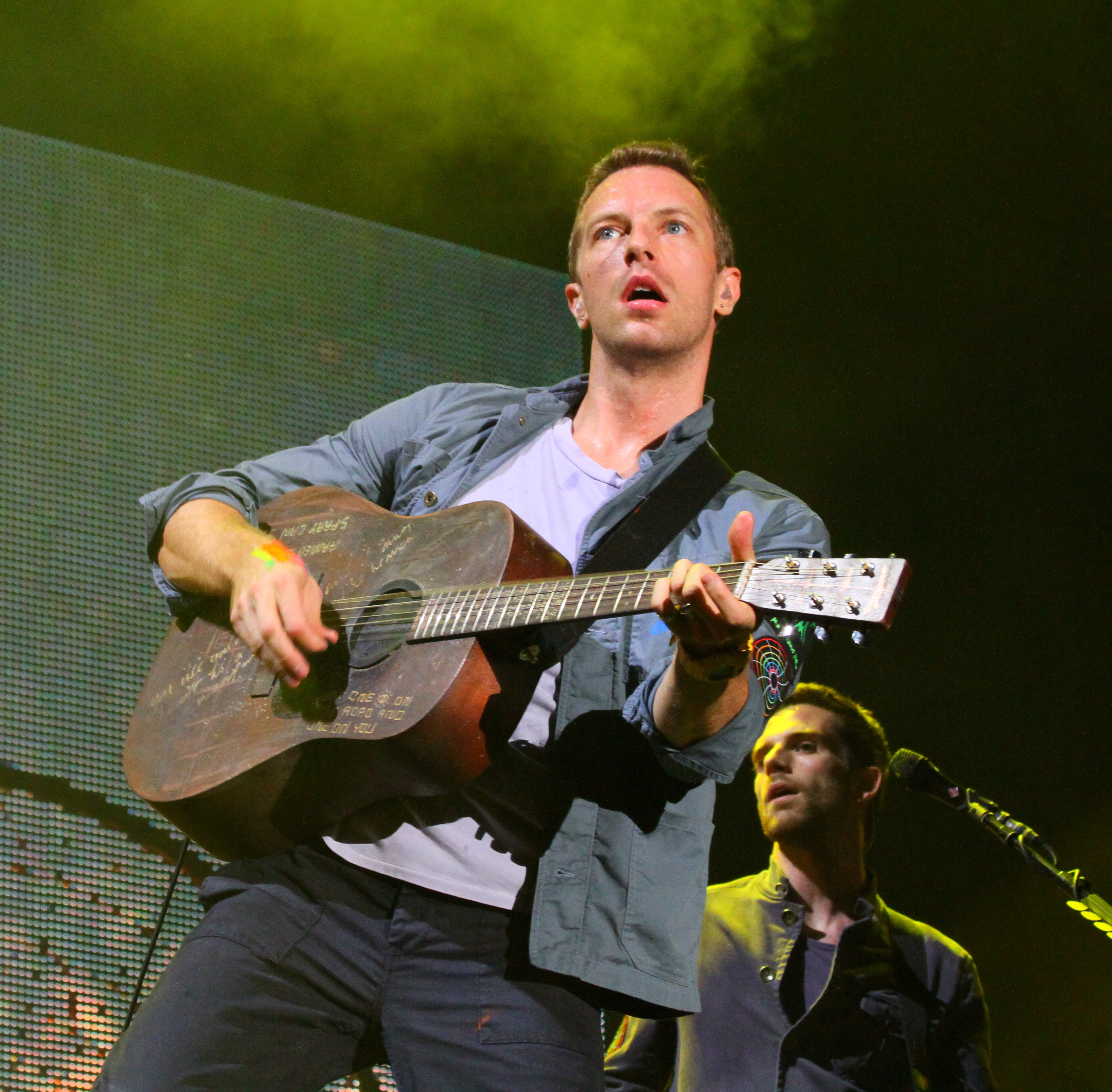 Chris Martin, performing with Coldplay, at the Naeba Ski Resort, Niigata, Japan, as part of the 2011 Fuji Rock Festival.